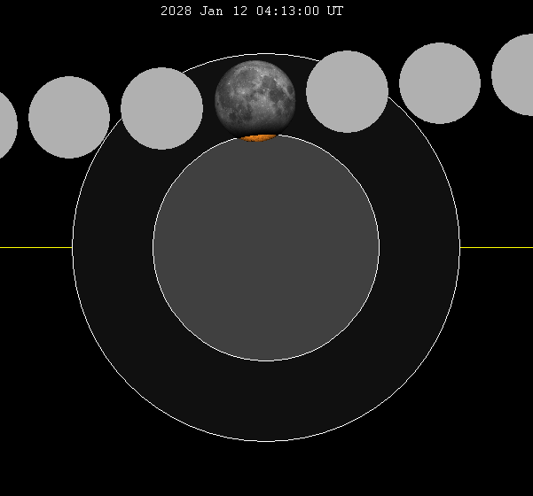 January 2028 lunar eclipse chart of moon's total lunar eclipse path through the earth's shadow. thumb